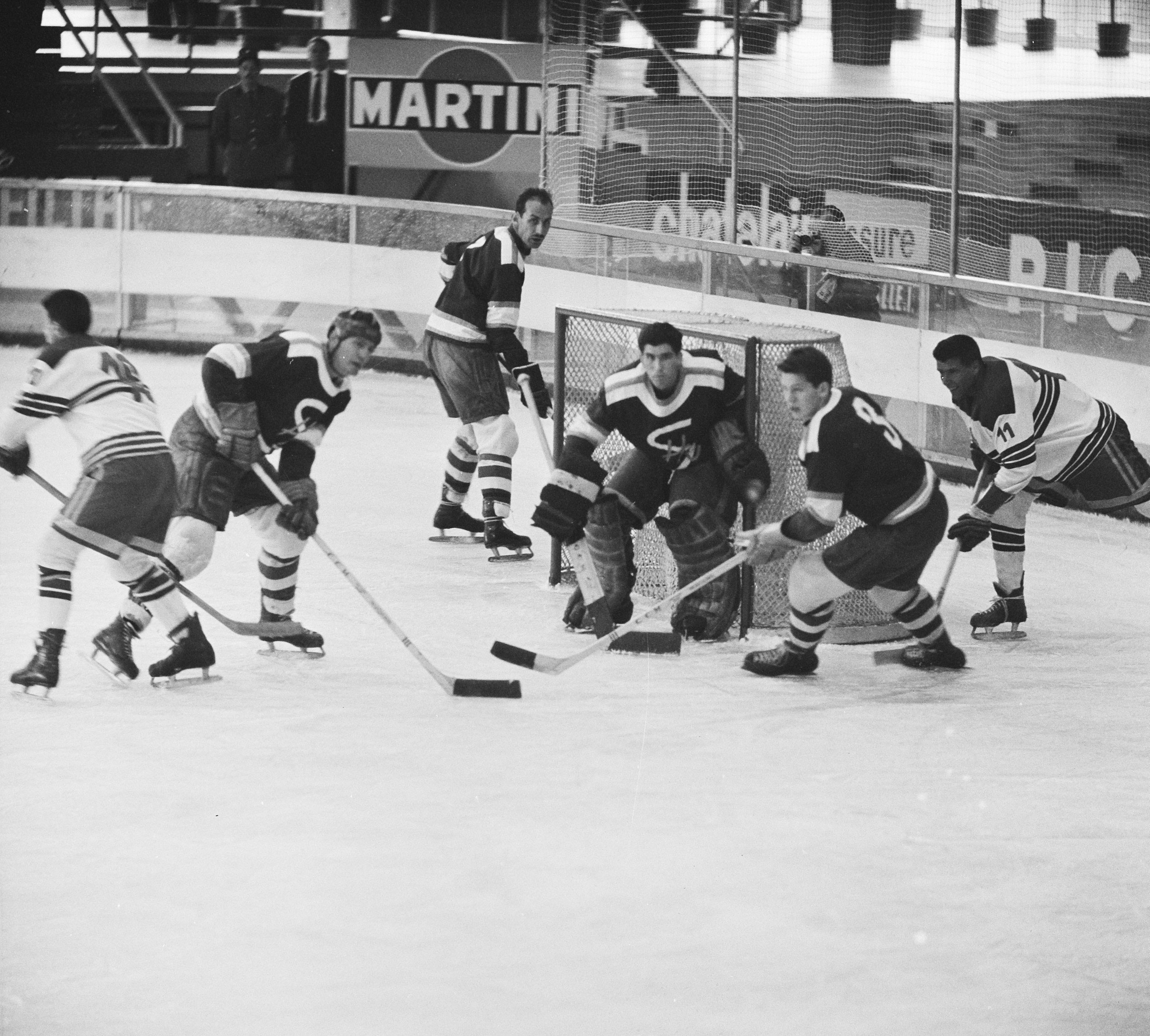 Nederlands vs Yugoslavia at 1961 IIHF World Championship Group C